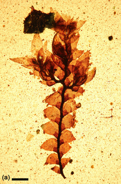 Figure 1. Radula cretacea sp. nov. from Cretaceous Burmese amber (PB22484). (a) Overview of the fossil. Scale bars: (a) 500 µm